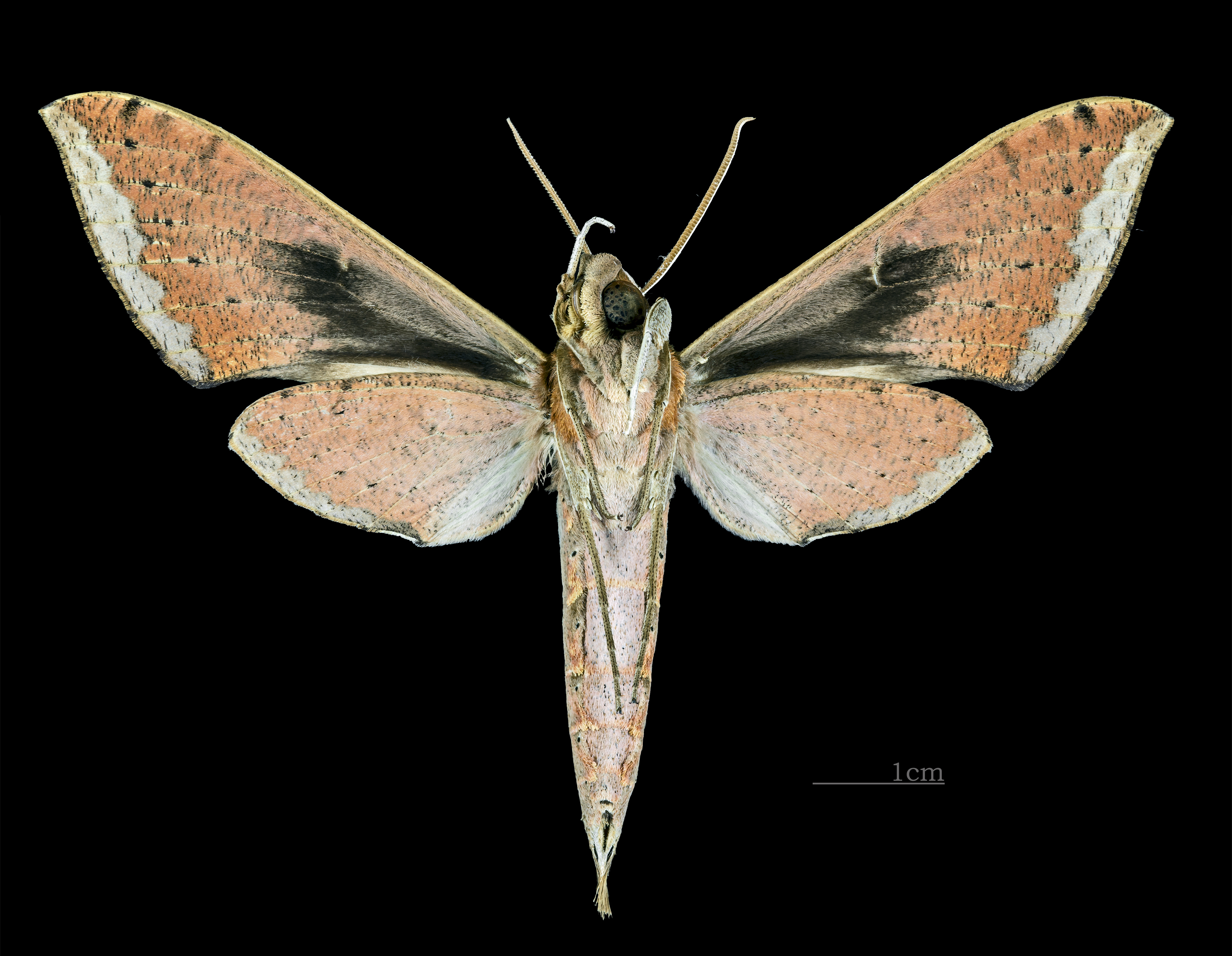 Xylophanes meridanus - △ Ventral side